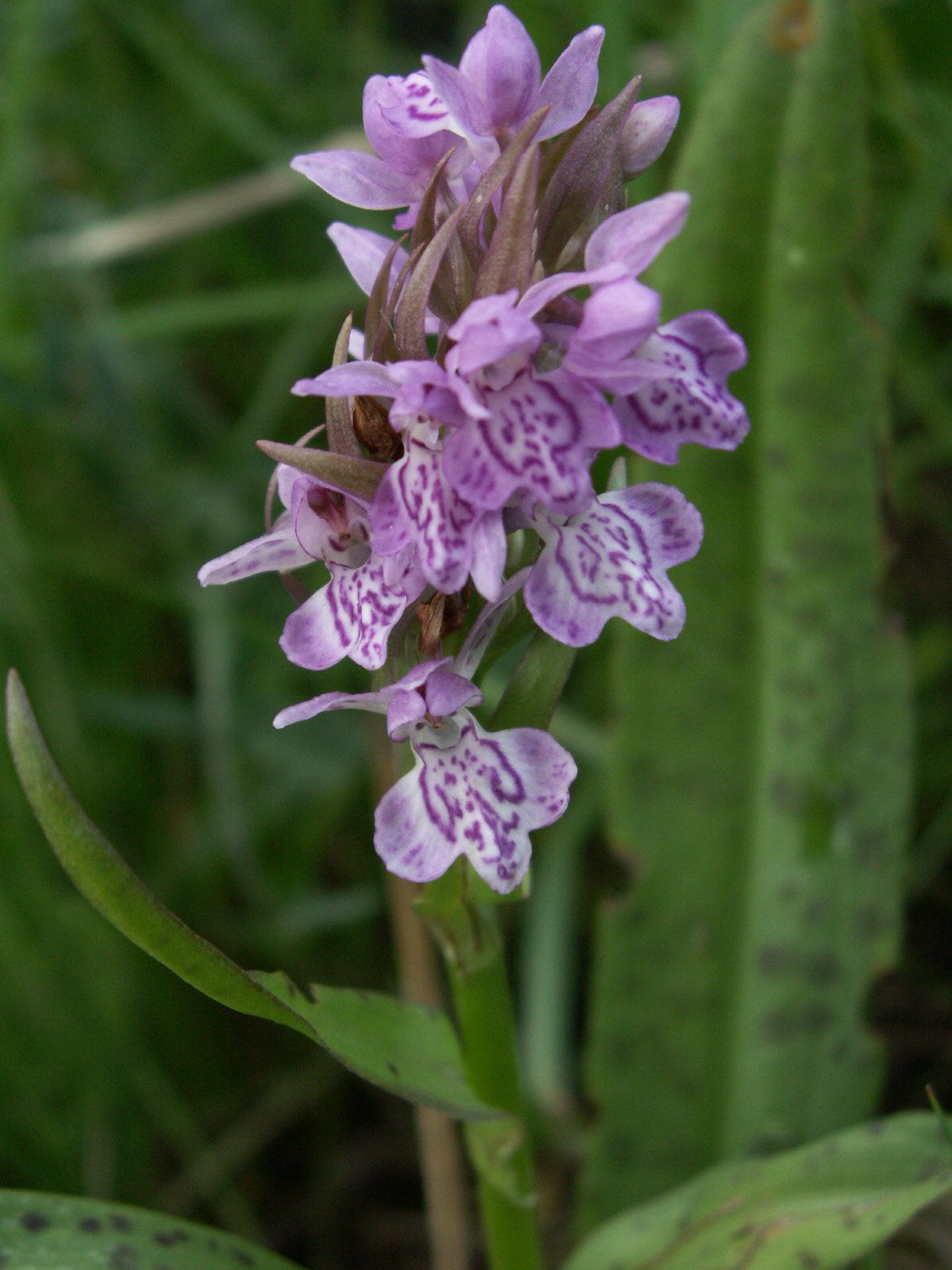 Dactylorhiza baltica, Lithuania